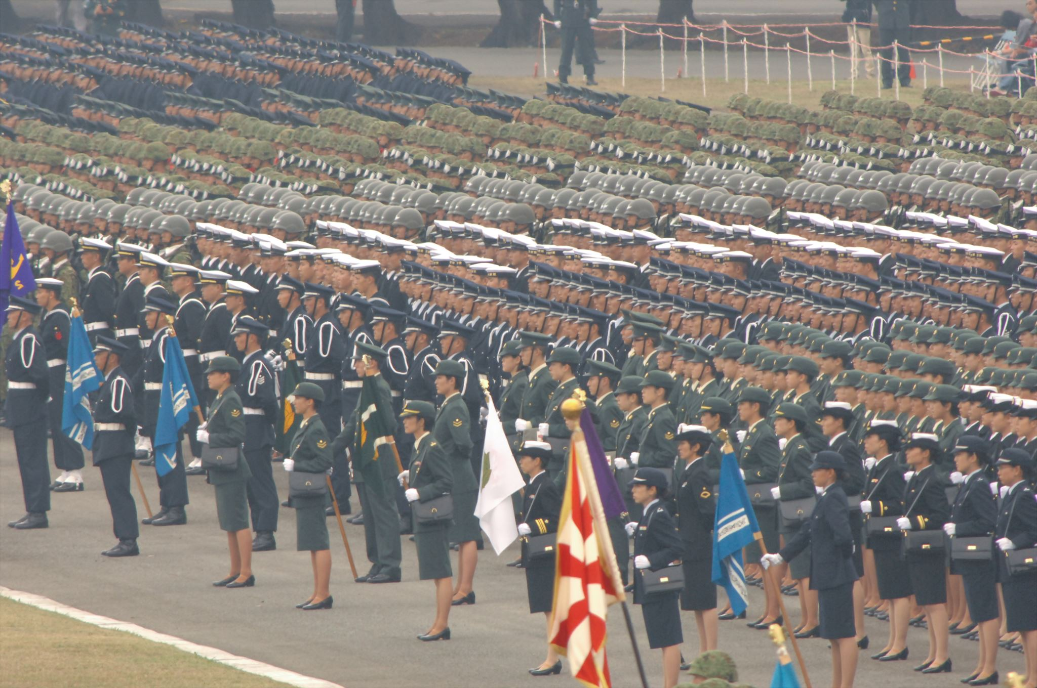 平成22年度観閲式(H22 Parade of Self-Defense Force)